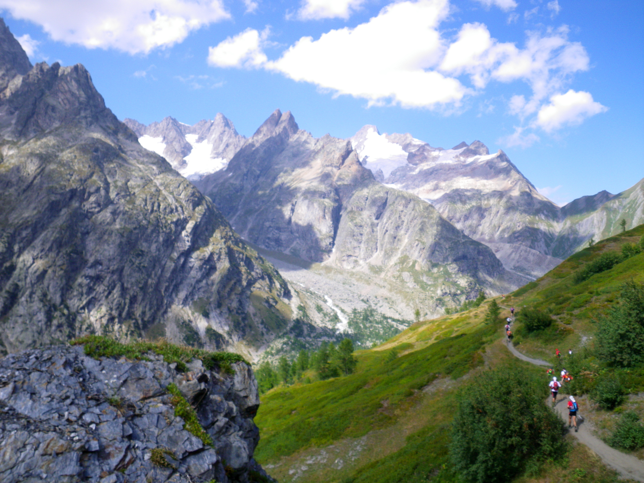 UTMB/CCC 2009